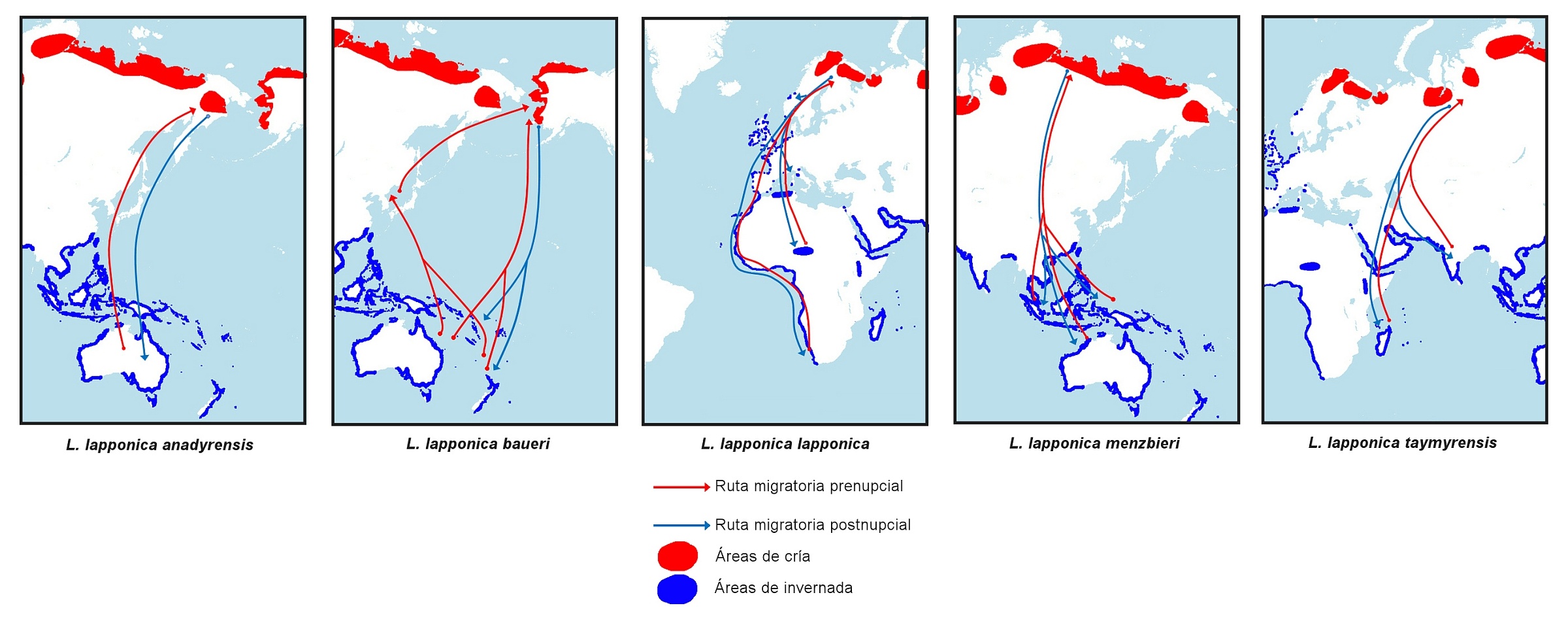 Limosa lapponica migration routes